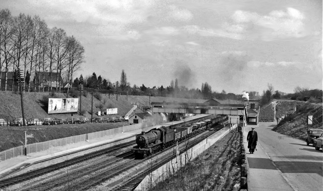 Beaconsfield Station. View eastward, towards London; ex-GC&GW Joint main line, Paddington - Birmingham etc./Marylebone - Sheffield, via High Wycombe. A 'Hall' class 4-6-0 passes on a Down Freight. The platforms are only on the Slow lines.